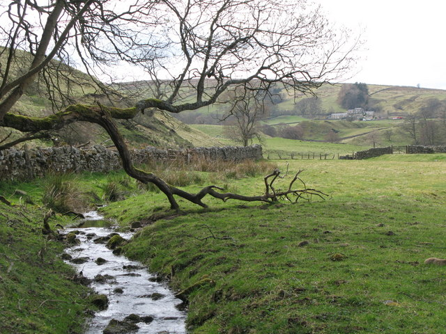 Un-named tributary of Mohope Burn. See also 1288469; the burn starts in the north of NY7850 west of Dale House.